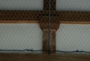 Tōshōdai-ji's Golden Hall is a Japan's National Treasure in Nara, Nara prefecture, Japan. It was built at the Nara period (AD 710 to 794).